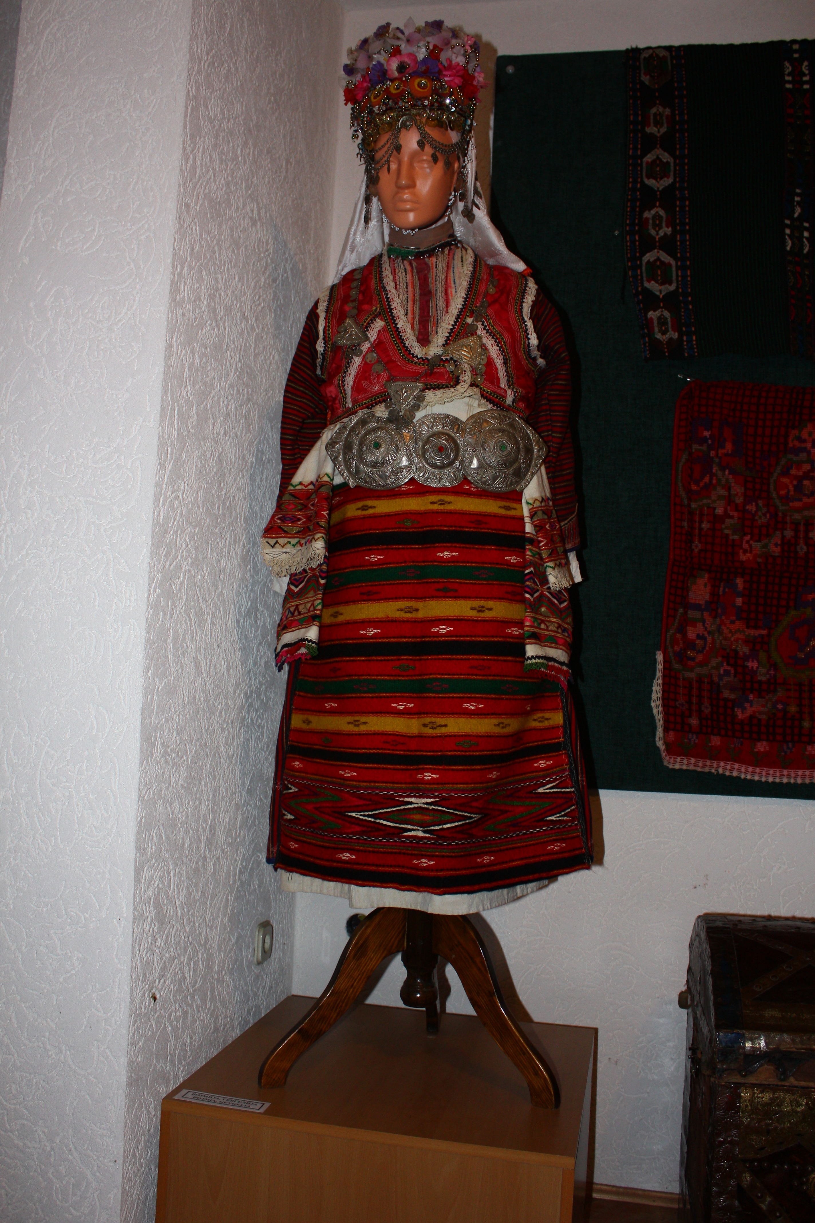 Female folk dress from the Bojmija region (Gevgelija). Ethnological Museum in Podmočani, Macedonia.